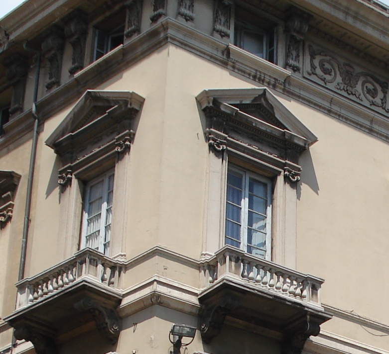 Bartolomeo Lomellini Palace in Genova